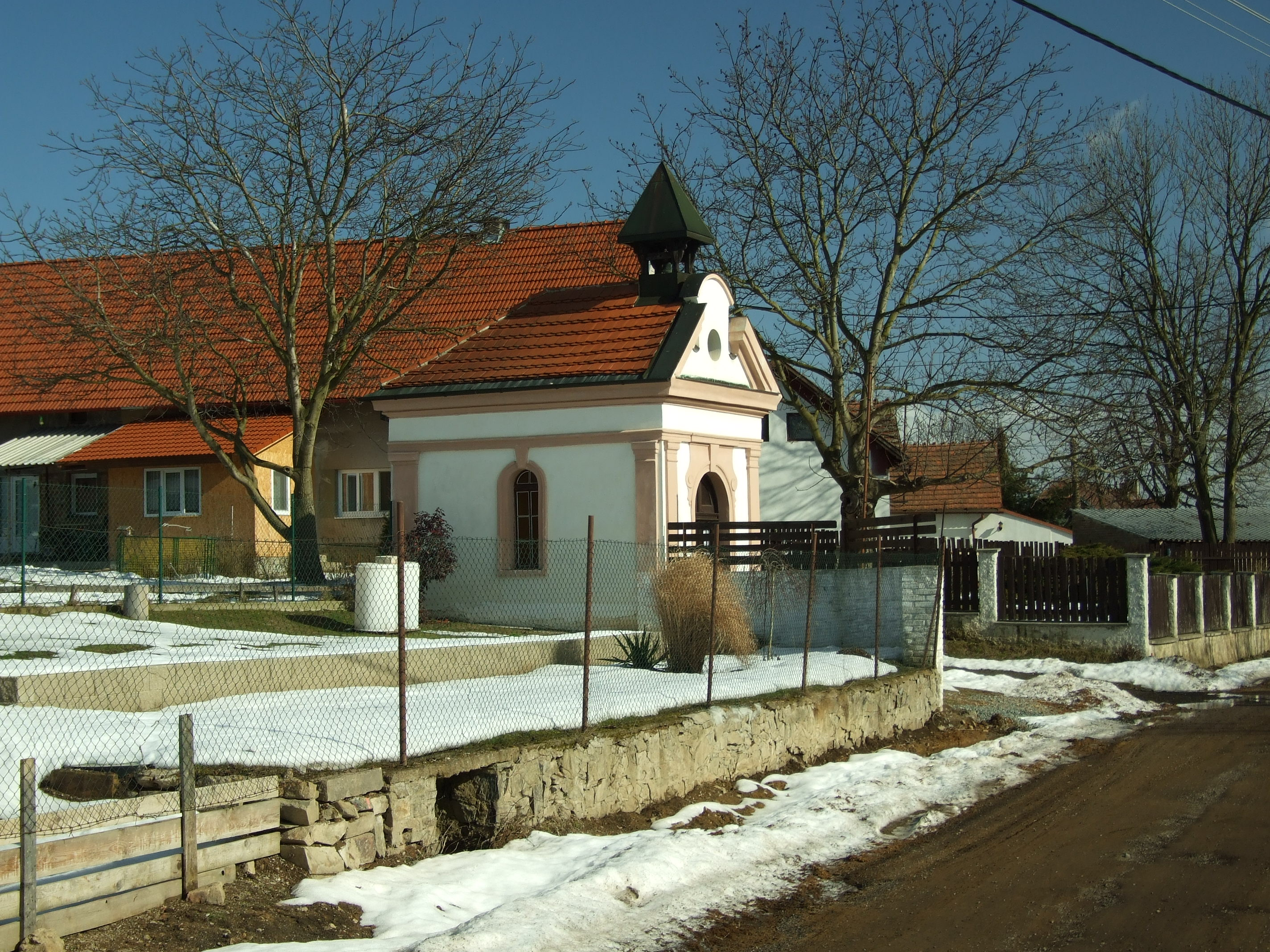 Village Zahořany near the town of Mníšek pod Brdy in Central Bohemian Region, CZ